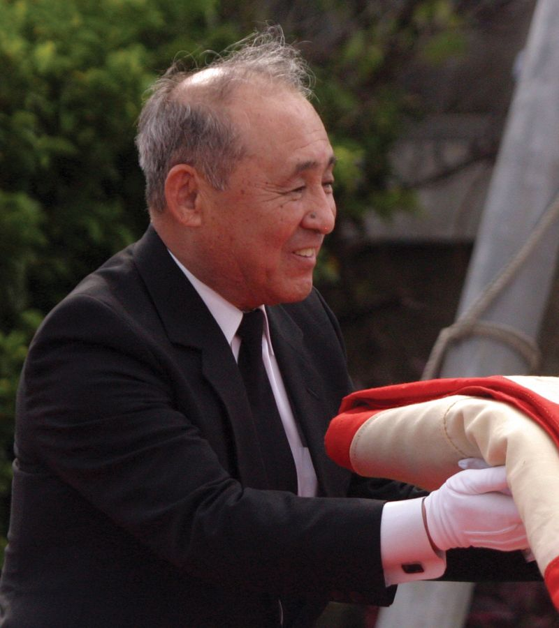 Taosa Ochiai, the son of Minoru Ota.